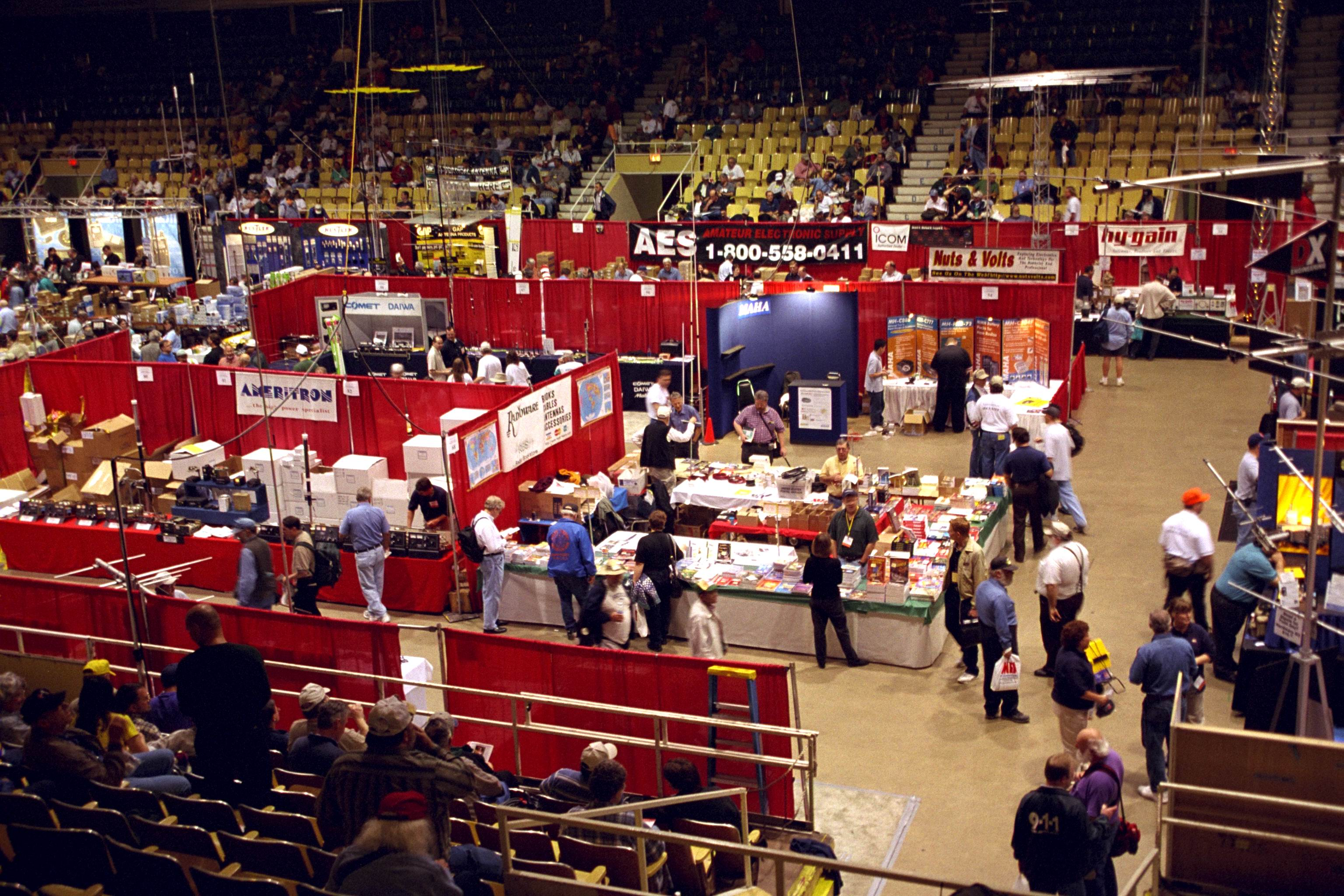 One of the exhibit halls from the 2003 Dayton Hamvention.